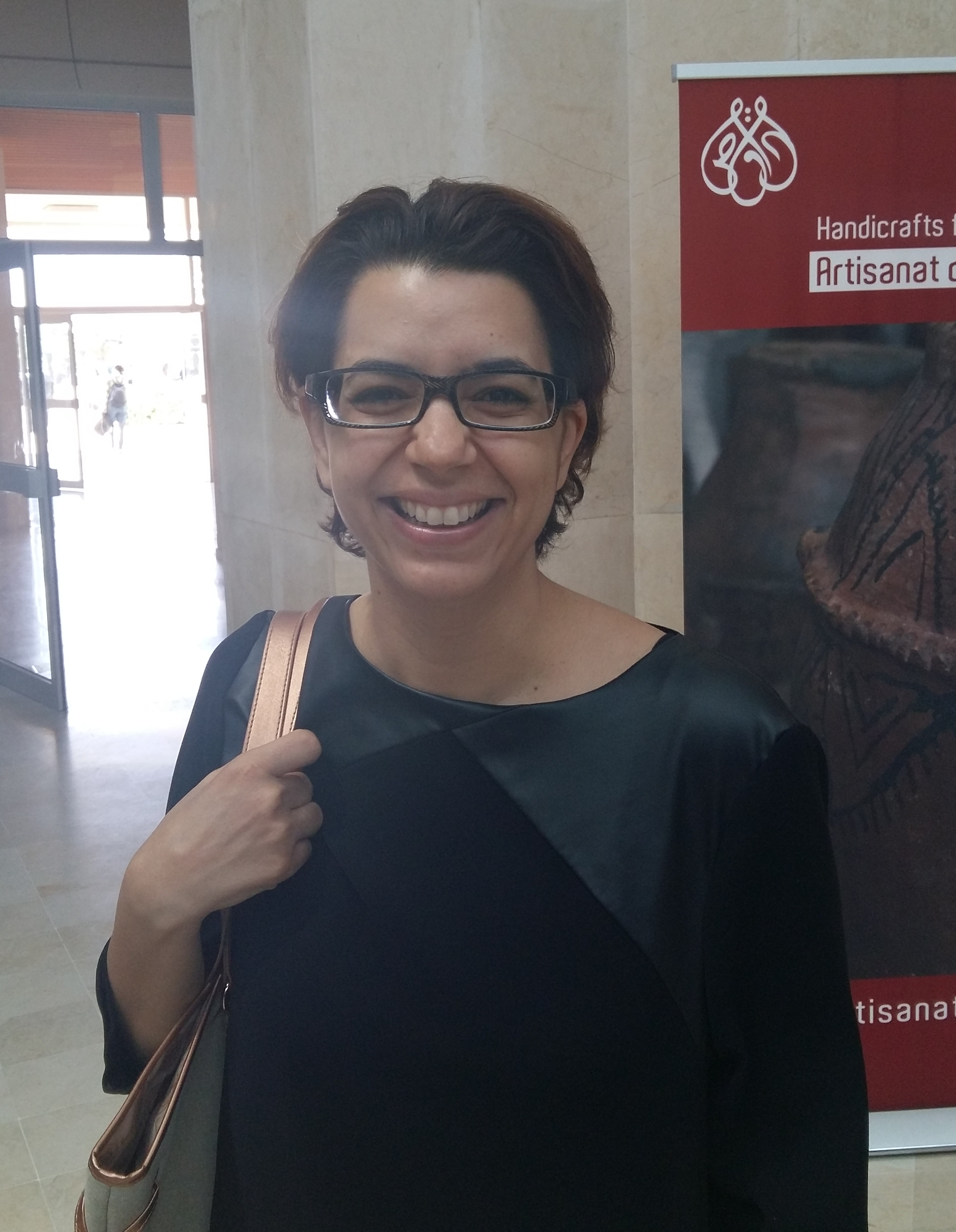 Amel karboul